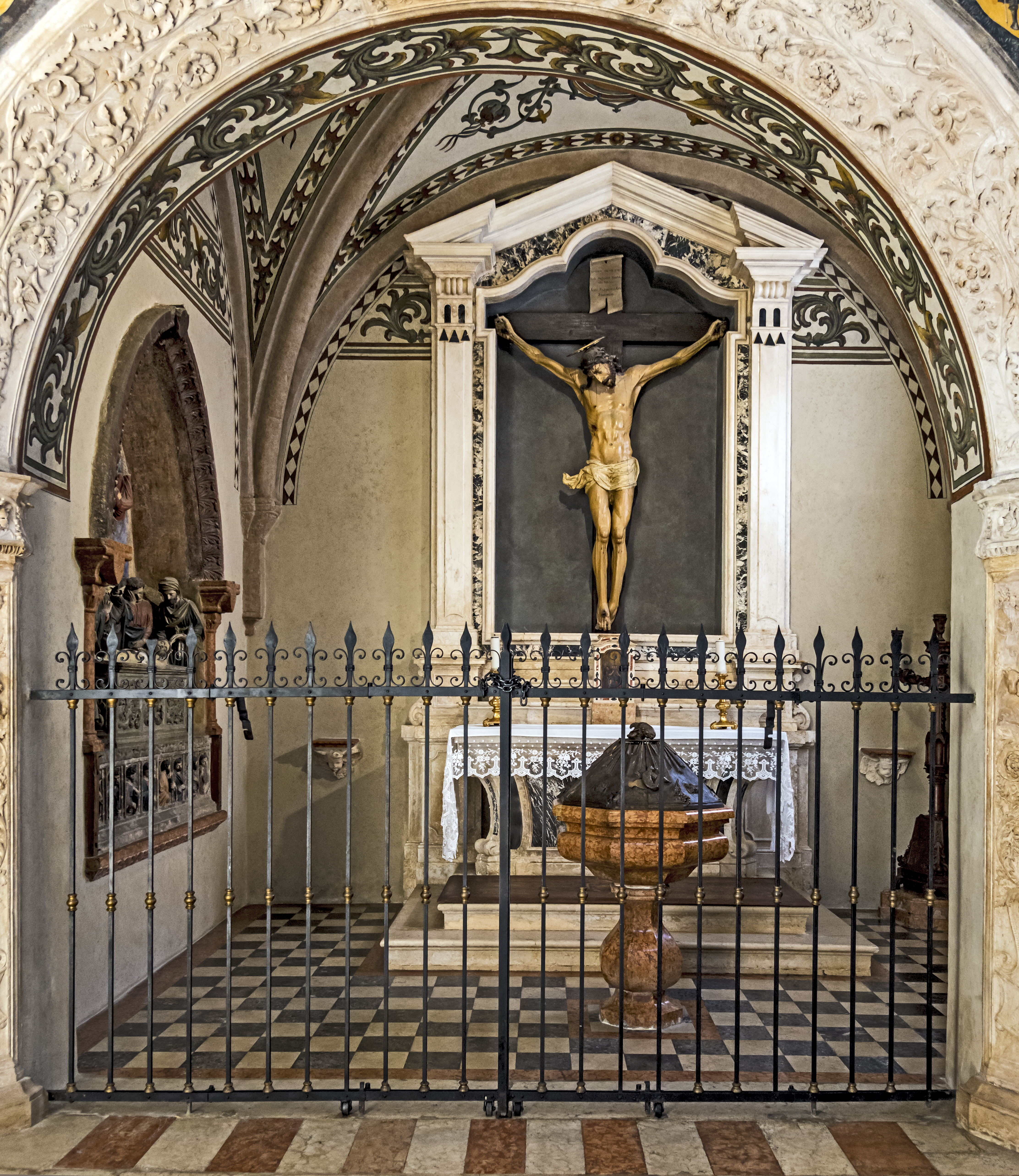 Basilica Santa Anastasia. The crucifix chapel. This is the oldest part of the building. It was constructed on the foundation of the first church dedicated to St. Anastasia. It contains the baptismal font. The wooden crucifix dates from the fifteenth century. To the left of the monument Gianessello da Folgari (1427) painted stone.